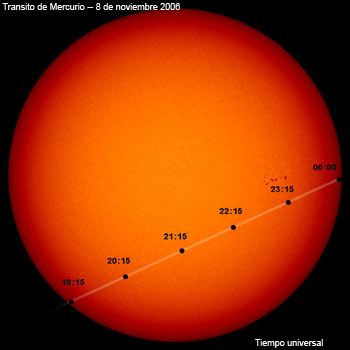 Transit of Mercury, 2006-11-08